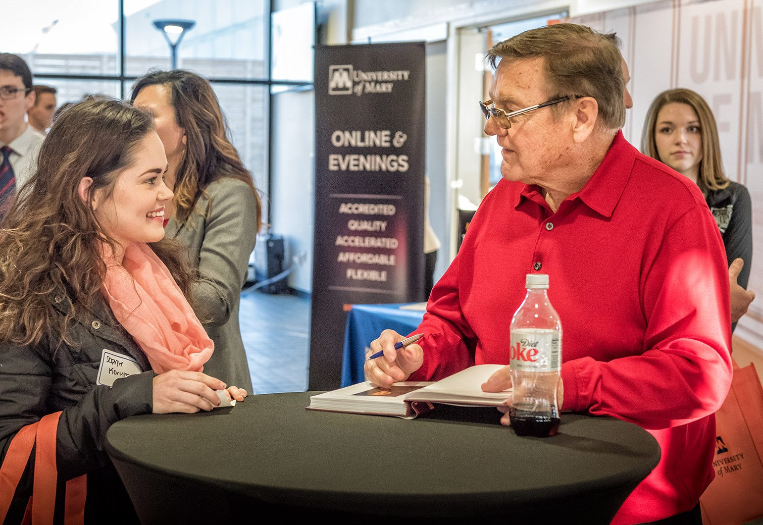 Gary Tharaldson speaks with University of Mary student upon the launch of the University's book chronicling Tharaldson's life, "Open Secrets of Success: The Gary Tharaldson Story".